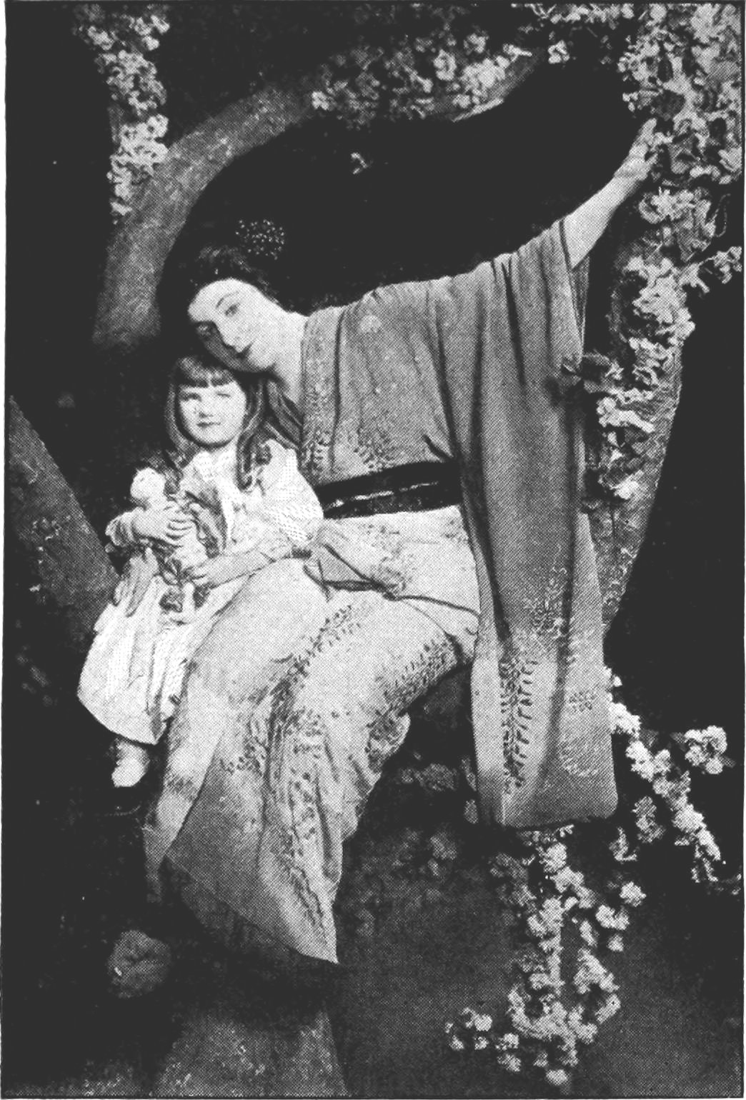 Puccini - Madama Butterfly - Butterfly and 'Trouble' Title: The Victrola book of the opera : stories of one hundred and twenty operas with seven-hundred illustrations and descriptions of twelve-hundred Victor opera records Year: 1917 (1910s) Authors: Victor Talking Machine Company Rous, Samuel Holland Subjects: Operas Publisher: Camden, N.J. : Victor Talking Machine Co. Text Appearing Before Image: PHOTO BrROII (Homer) (Farrar) MADAM A BUTTERFLY ACT II, SCENE II *Double-Faced Record—See page 269. 266 VICTROLA BOOK OF THE OPERA —MADAME BUTTERFLY Text Appearing After Image: Ora a noi! (Letter Duet) By Geraldine Farrar and Antonio Scotti (In Italian) 89014 12-inch, $4.00 Butterfly is visited by Sharpless, who has re-ceived a letter from Pinkerton, and has acceptedthe unpleasant task of informing Butterfly that theLieutenant has deserted her. He finds his taska difficult one, for when he attempts to readPinkertons letter to her, she misunderstands itspurport and continually interrupts the Consul withlittle bursts of joyful anticipation, thinking thatPinkerton will soon come to her. When do therobins nest in America? she asks, saying that hewill surely come then. Finally realizing some-thing of his message, she runs to bring her childto prove to Sharpless the certainty of her husbandshome-coming. Sai cos ebbe cuore (Do YouKnow, My Sweet One) By Geraldine Farrar, Soprano (In Italian) 87055 10-in., $2.00In this pitiful air she asks little Troublenot to listen to the bad man (Sharpless), who issaying that Pinkerton has deserted them. Shocked at the sight of th